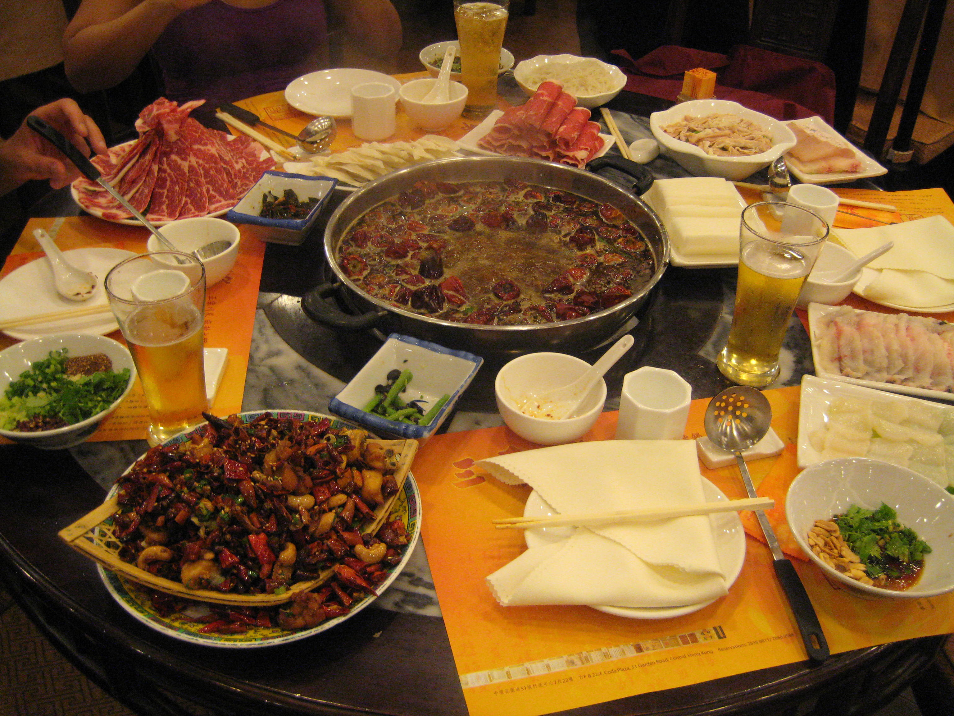 Sichuan food in a restaurant in Hong-Kong